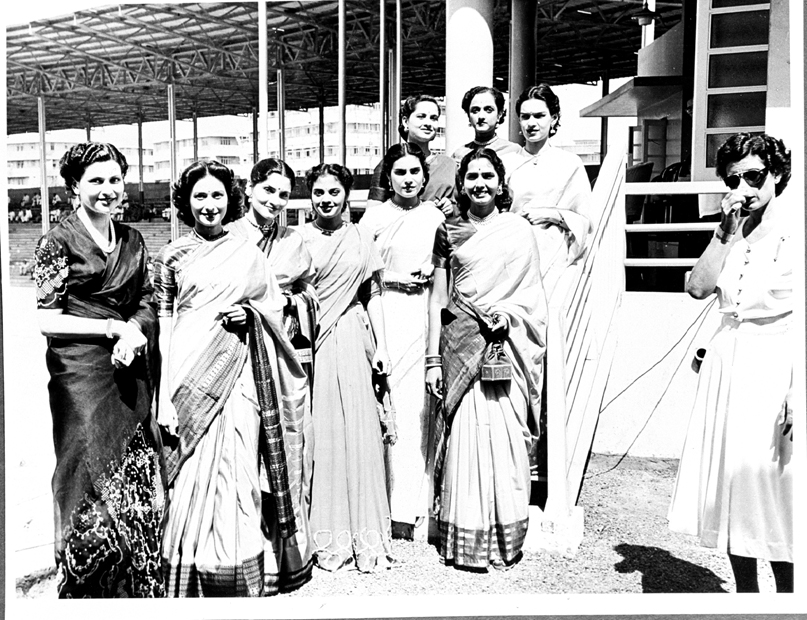 XPDEAM/April.52,A57hA large number of spectators assembled at the Brabourne Stadium in Bombay, in the first week of April, 1952 to witness an impressive and colourful Beauty Parade when “Miss India” was selected by a panel of six judges. Mrs. Indrani Rehman of Calcutta, was adjudged the most beautiful in India’s first Beauty Contest. She was crowned “Miss India” amidst the cheerings of vast crowds.Photo shows all the participants of the Beauty Contest. “Miss India” – Mrs. Indrani Rehman appears third from left and the runner-up Miss Suryakumari of Madras is seen sixth from left.